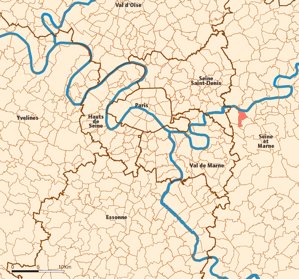 Created map myself